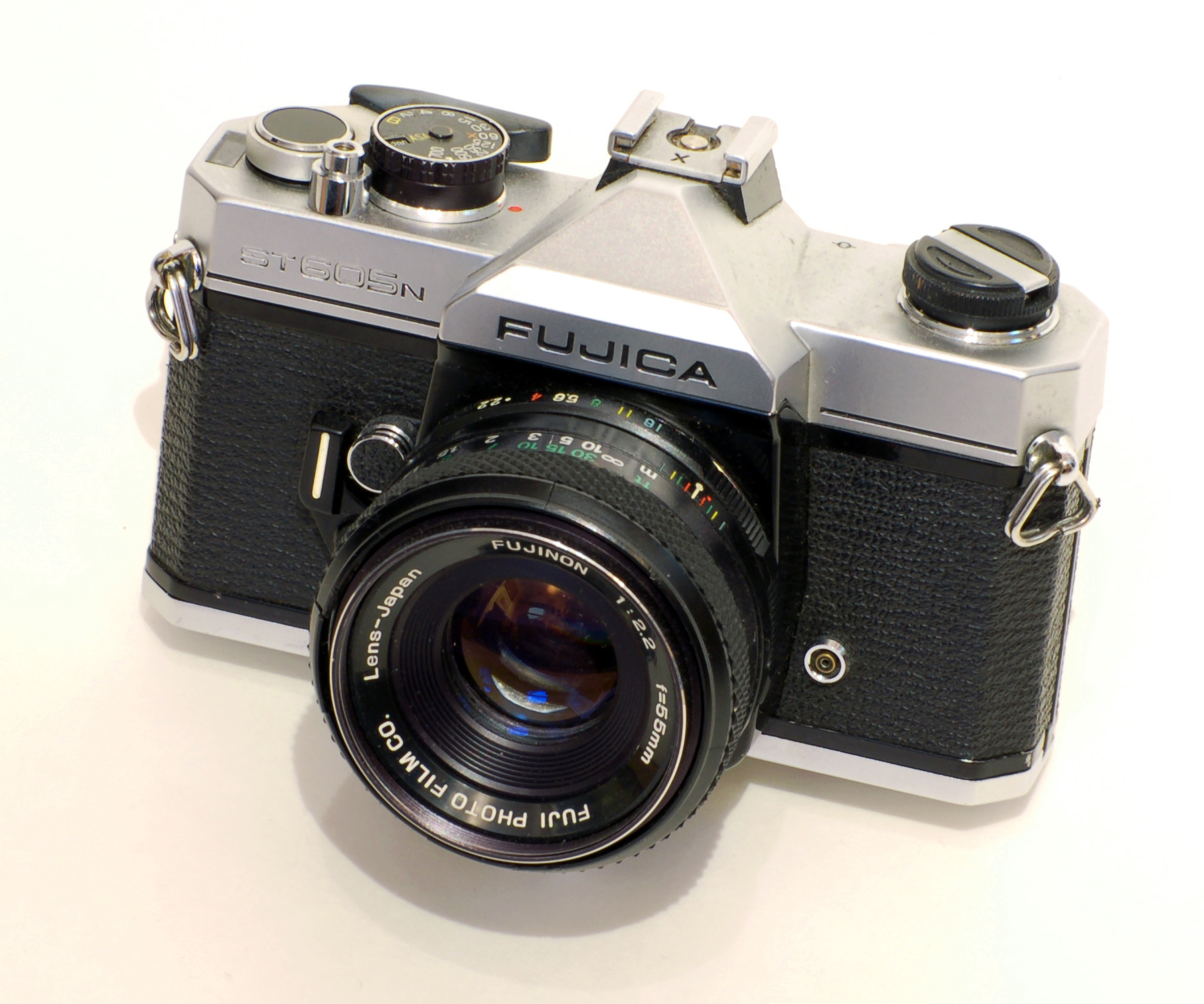 Fujica ST605N, 135mm SLR camera with Fujinon 55mm f 2.2 from 1979